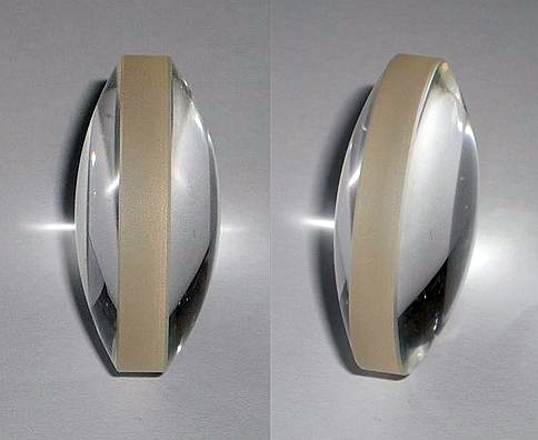 Biconvex lens.